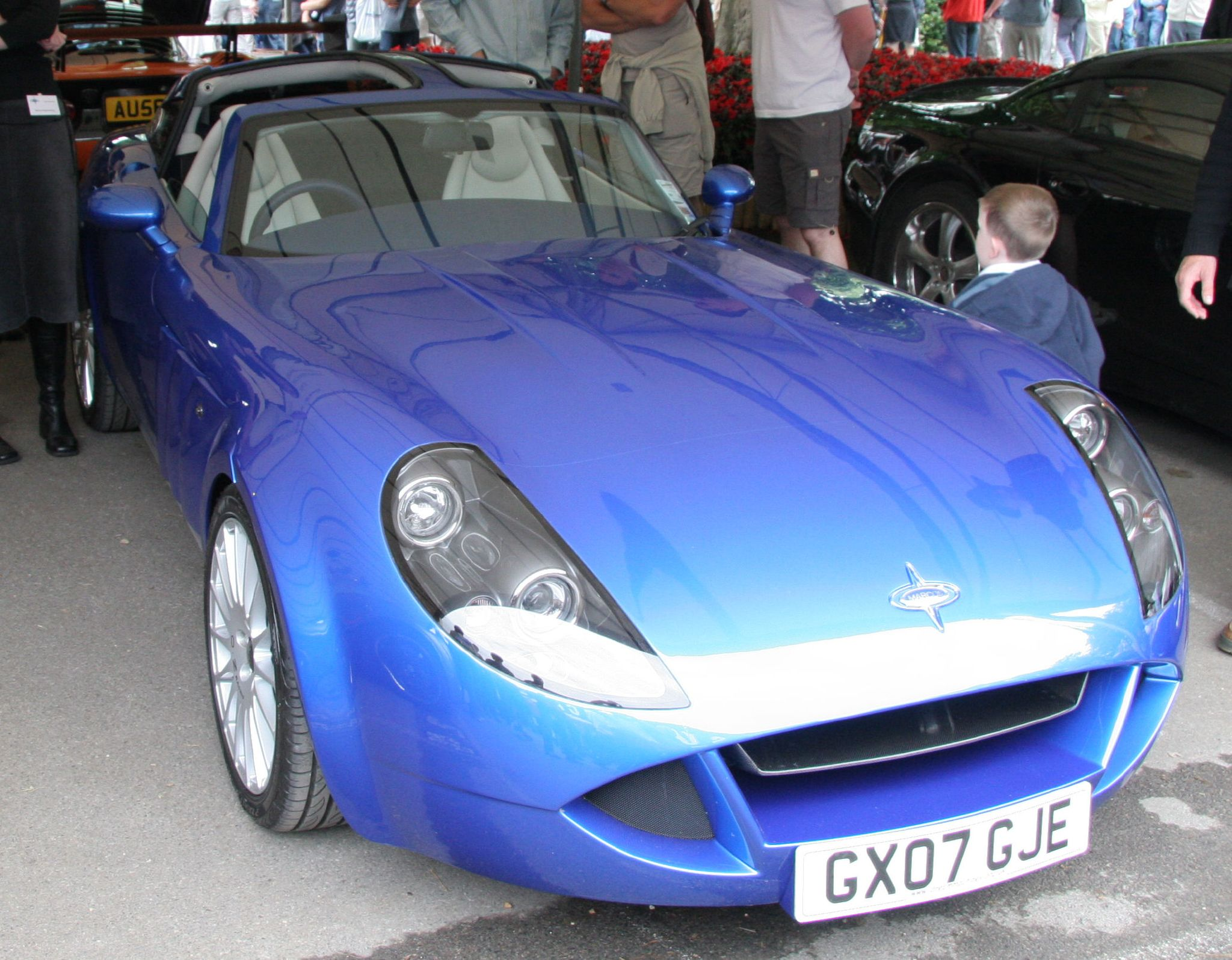 A Marcos GT2 at the Goodwood Festival of Speed